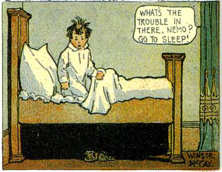 Last panel of the 1906-02-11 episode of Little Nemo in Slumberland by American cartoonist Winsor McCay.